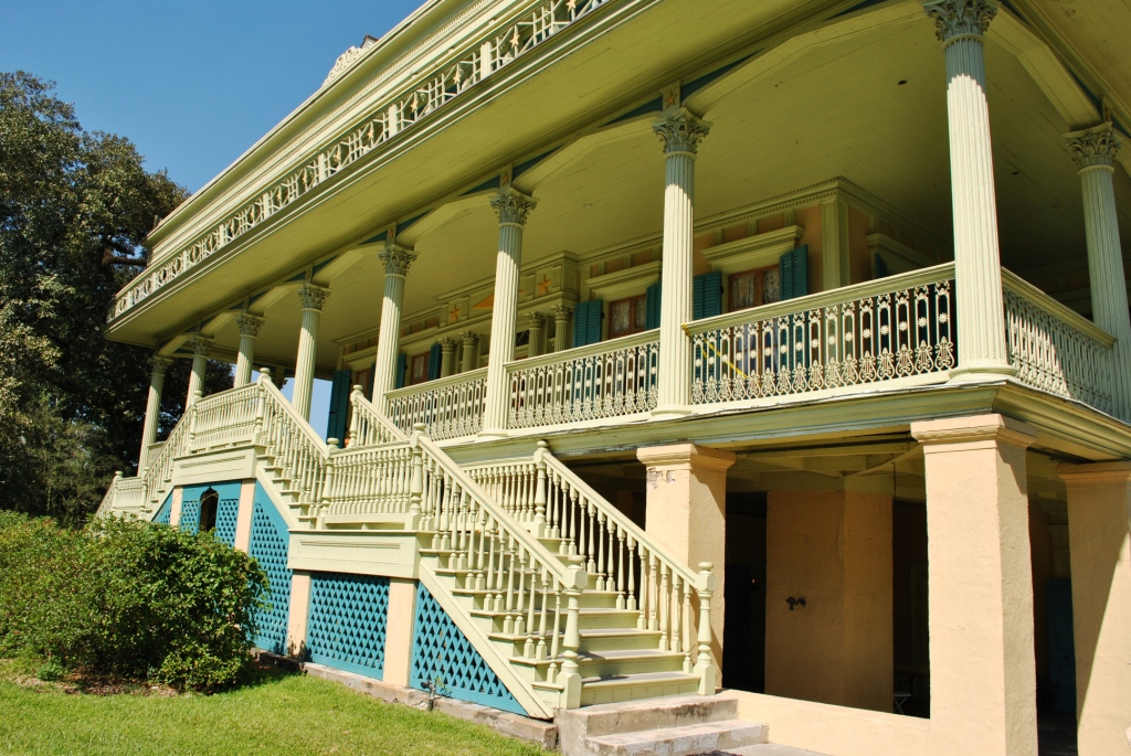 San Francisco Plantation House, 3 miles west of Reserve on Louisiana Highway 44 Reserve